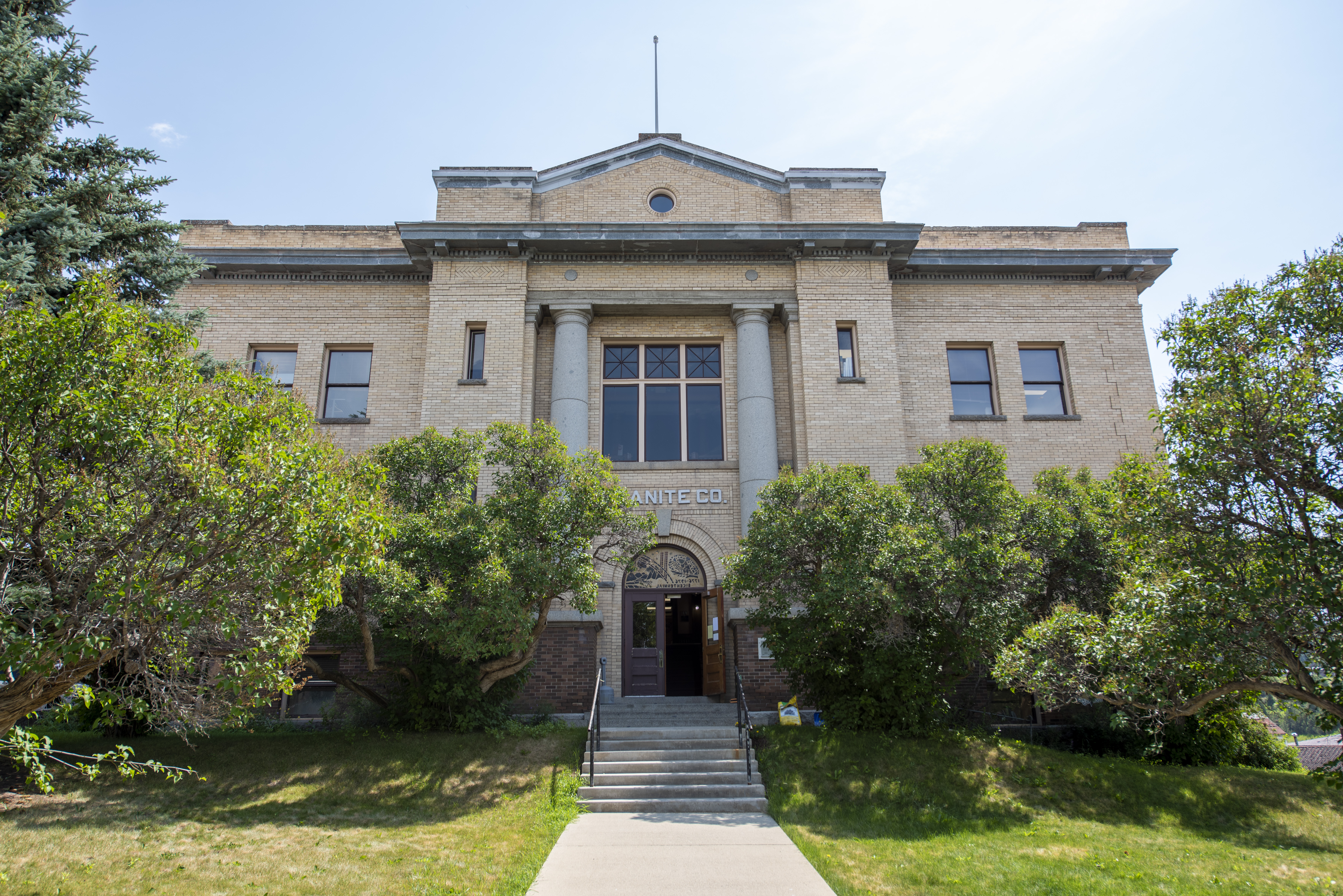 Photograph of the Granite County Courthouse in Philipsburg, Montana. Image taken in July 2020.